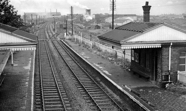 Bilston West Station (remains). Near to Bilston, Wolverhampton, Great Britain. View SSE, towards Dudley and Stourbridge Junction; ex-GWR Stourbridge Junction - Dudley - Wolverhampton (Low Level) secondary main line. Plain 'Bilston' until 19/7/50, this station was closed 30/7/62 when passenger trains ceased on the route, but freight traffic continued until 12/67.